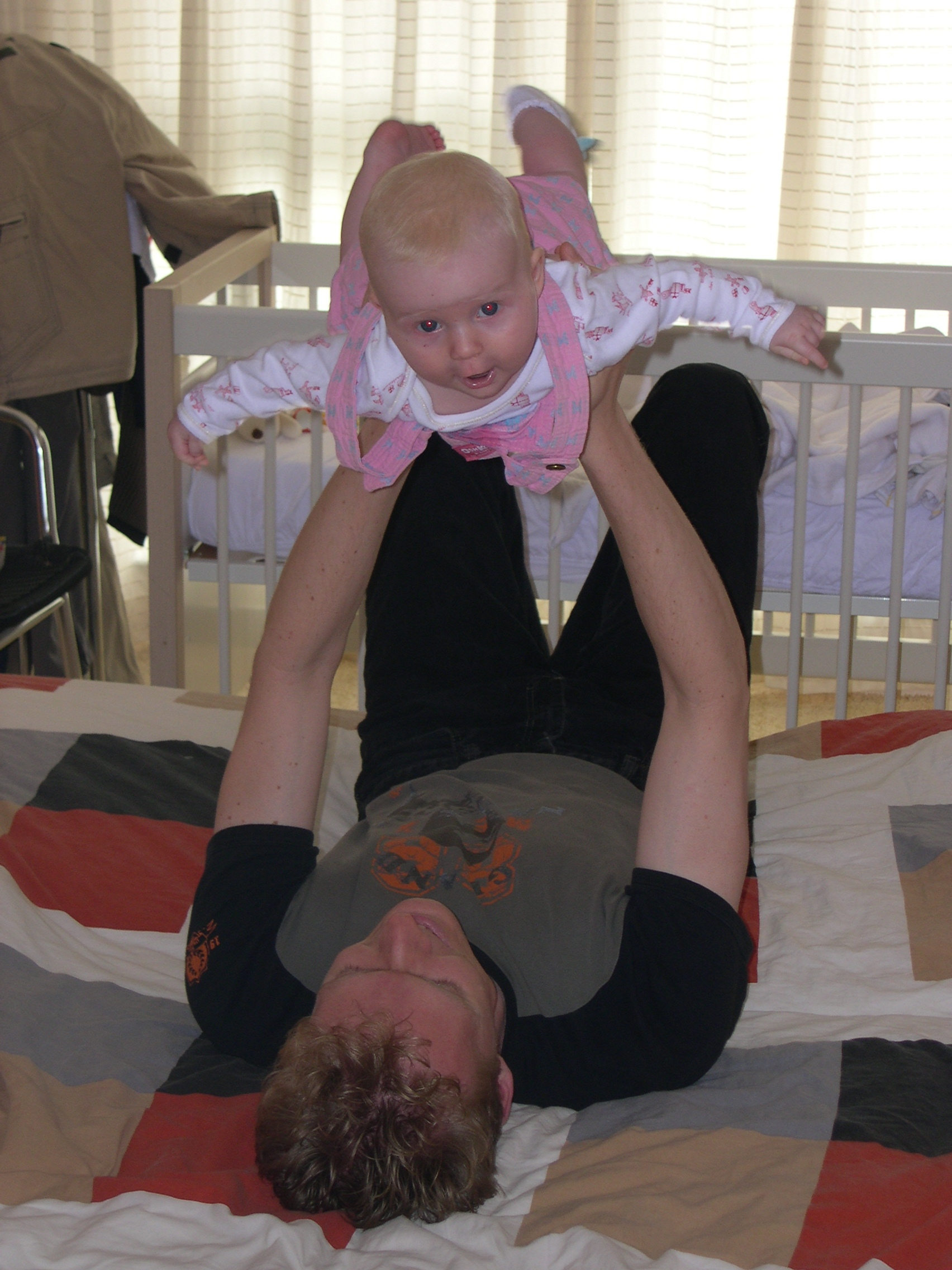 Own photo, july 2005. User Magalhaes and daughter.